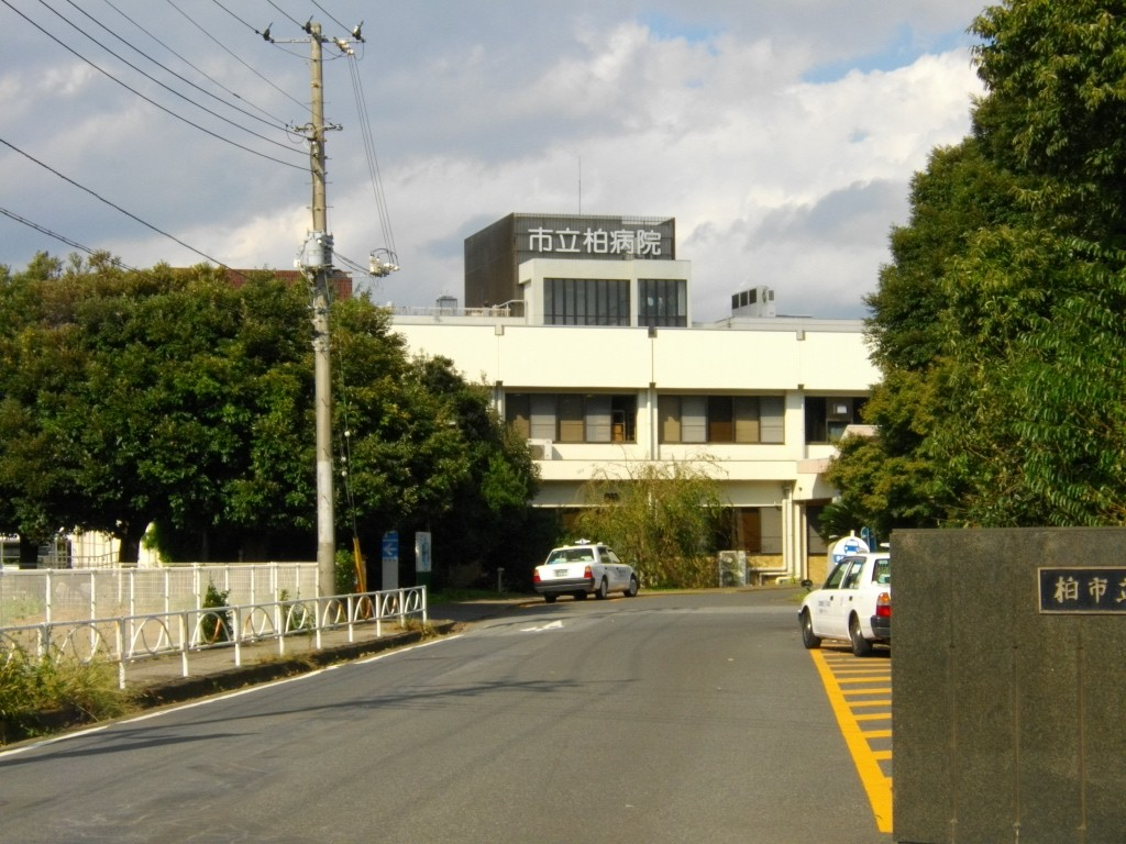 Kashiwa City Hospital